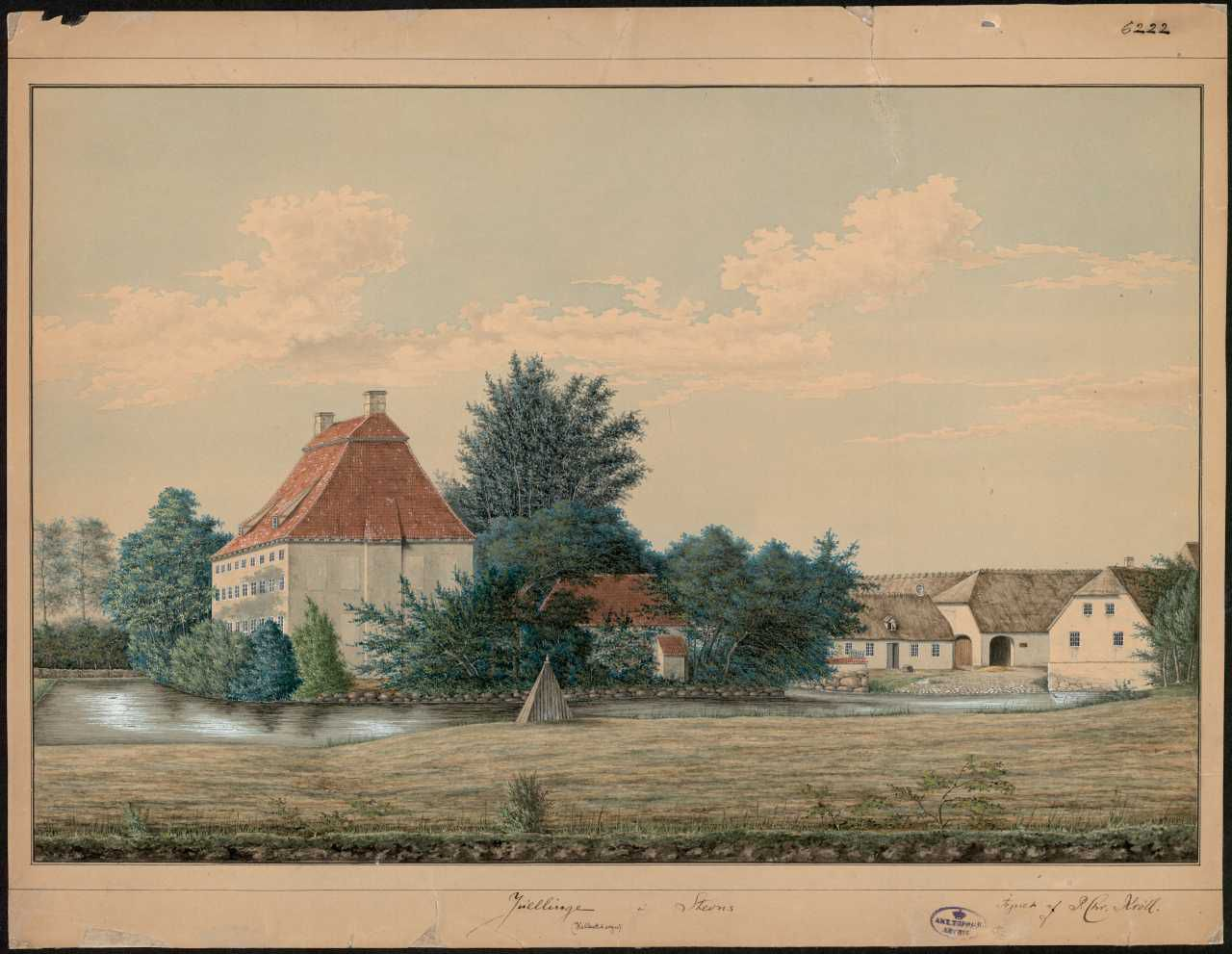 Juellinge in Køge Municipality, Denmark